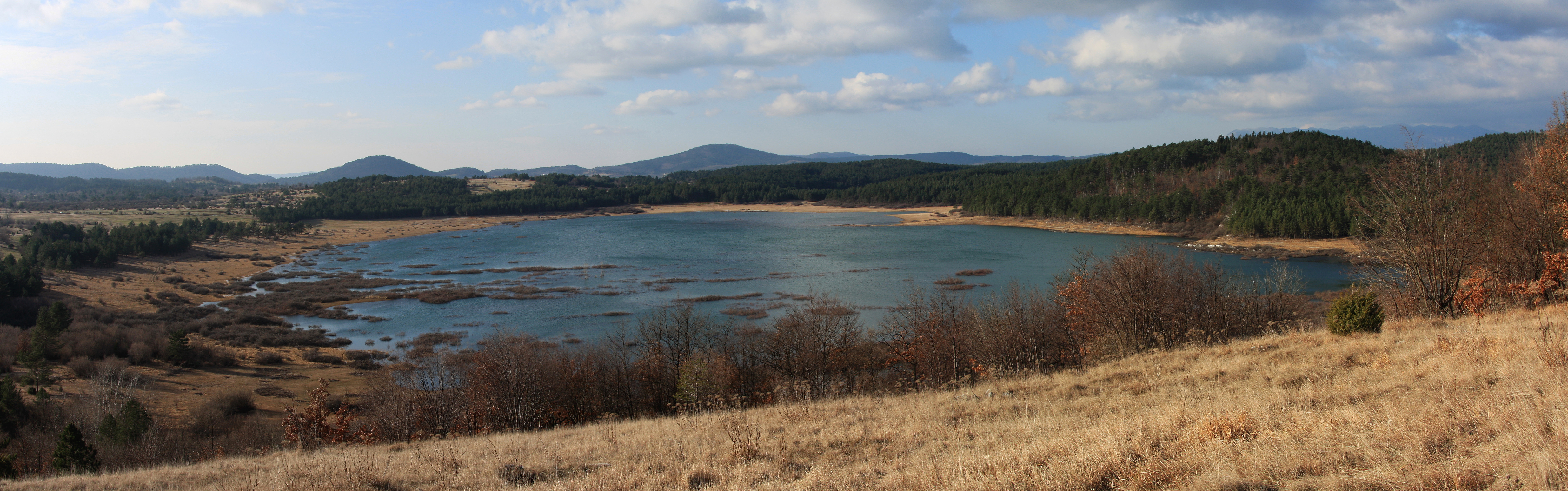 Panorama of Lake Palčje (southwestern Slovenia) during high waters in early winter.